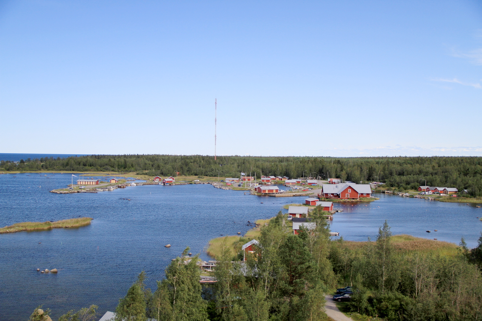 Svedjehamn from Saltkaret observation tower in Björköby, Korsholm, Finland